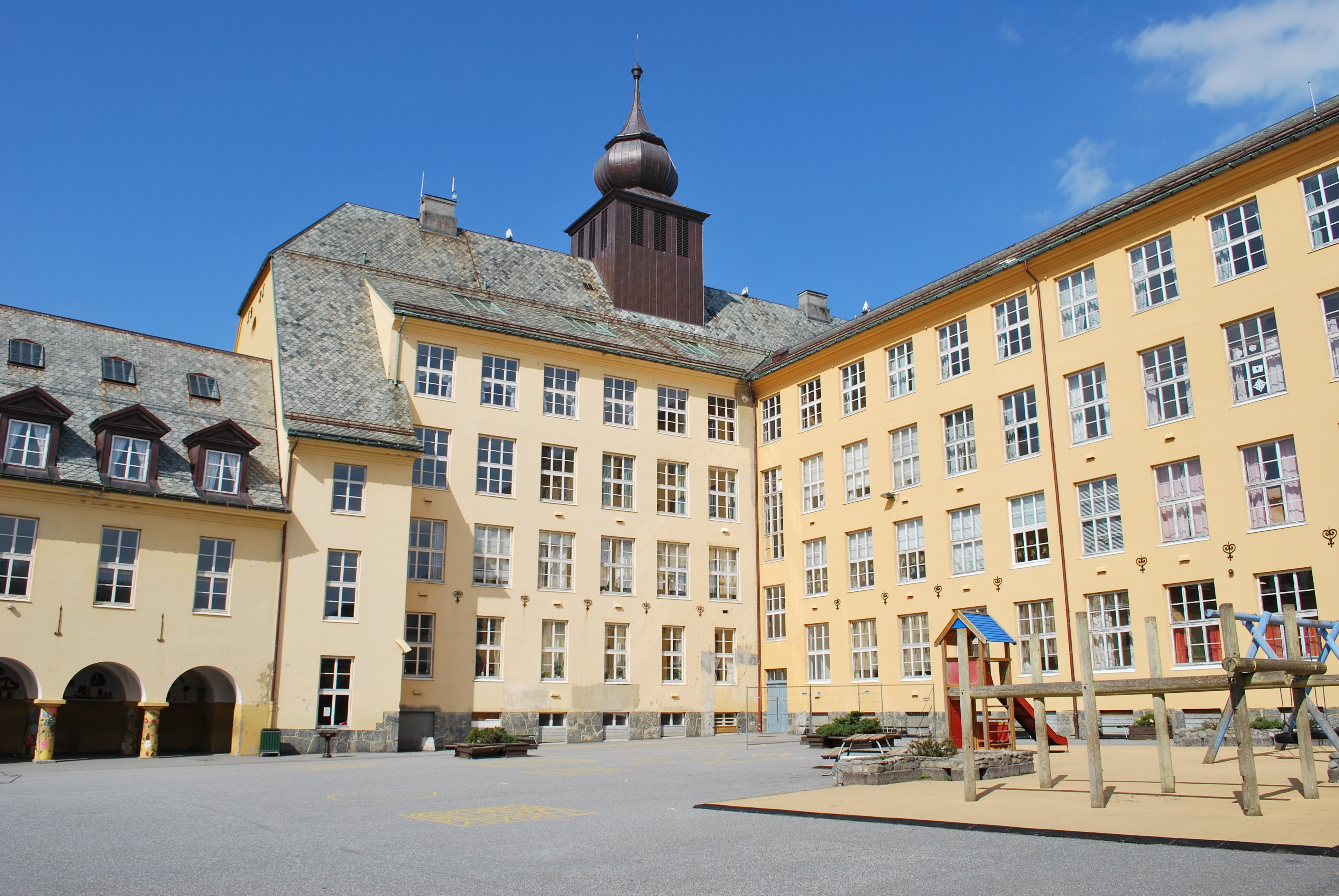 School yard, Aspøy Skole, Ålesund, Norway.